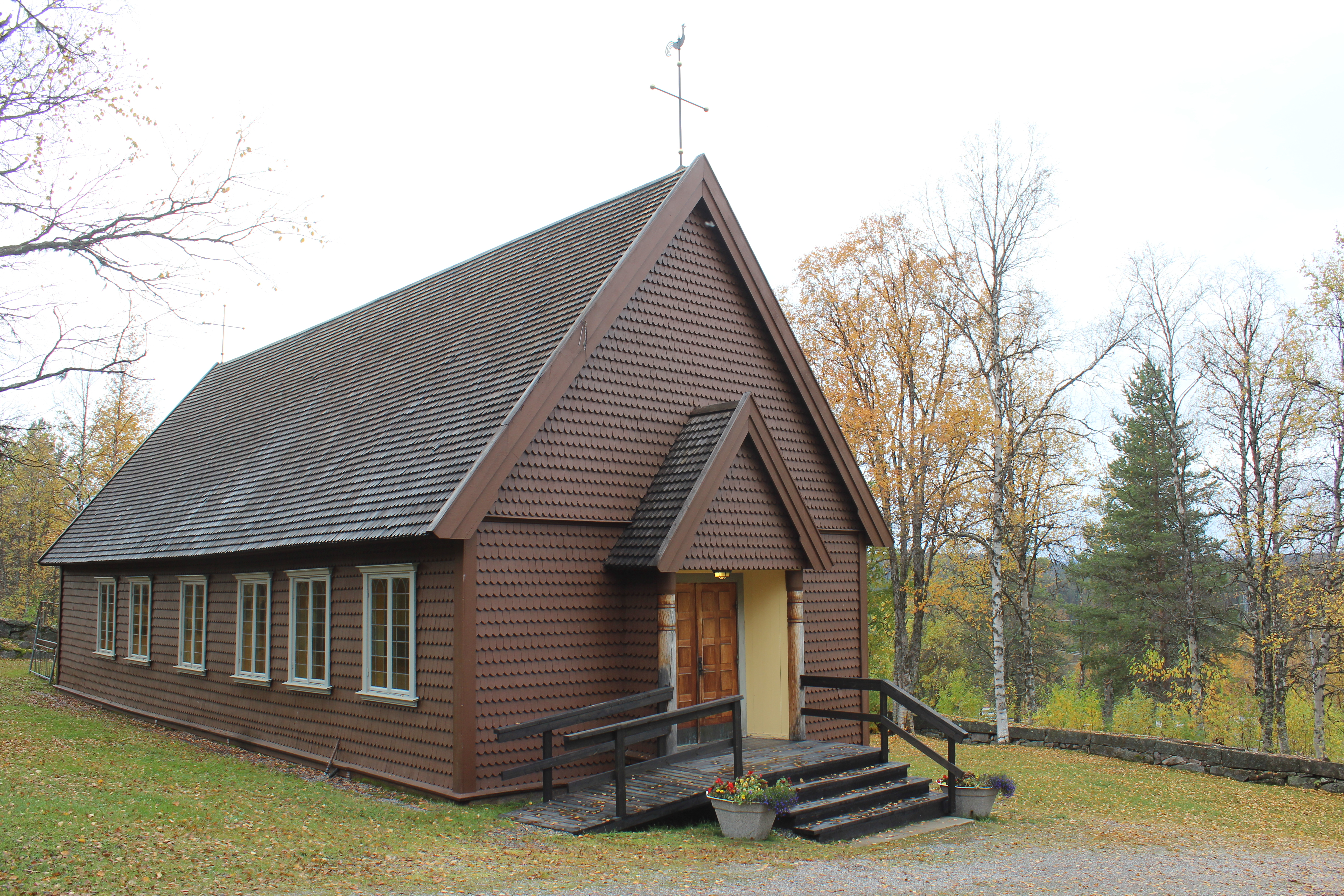 Porjus church , Norrbotten county